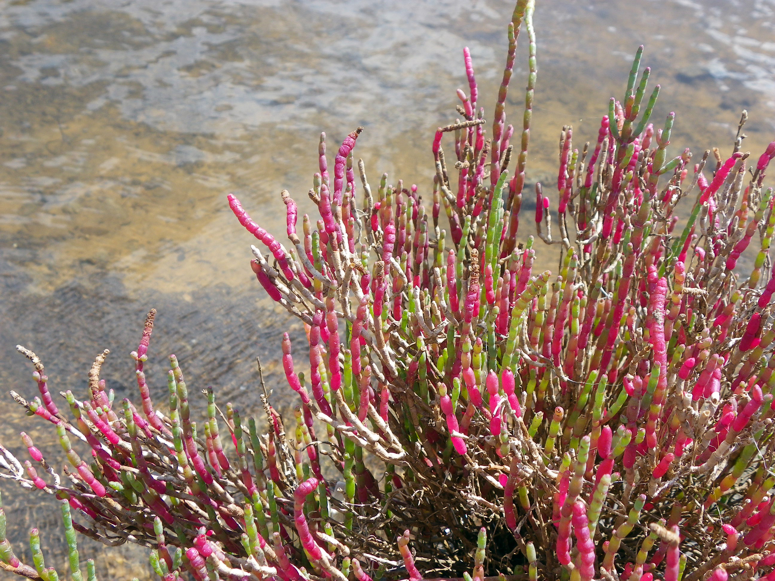 Beaded glasswort (Sarcocornia quinqueflora) is a succulent coastal shrub growing along the south-west and south-east coasts of Australia.